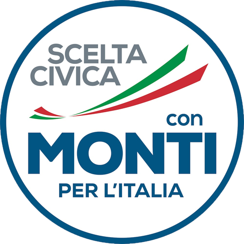 Logo of Scelta Civica - Con Monti per l'Italia (Civic Choice - With Monti for Italy)